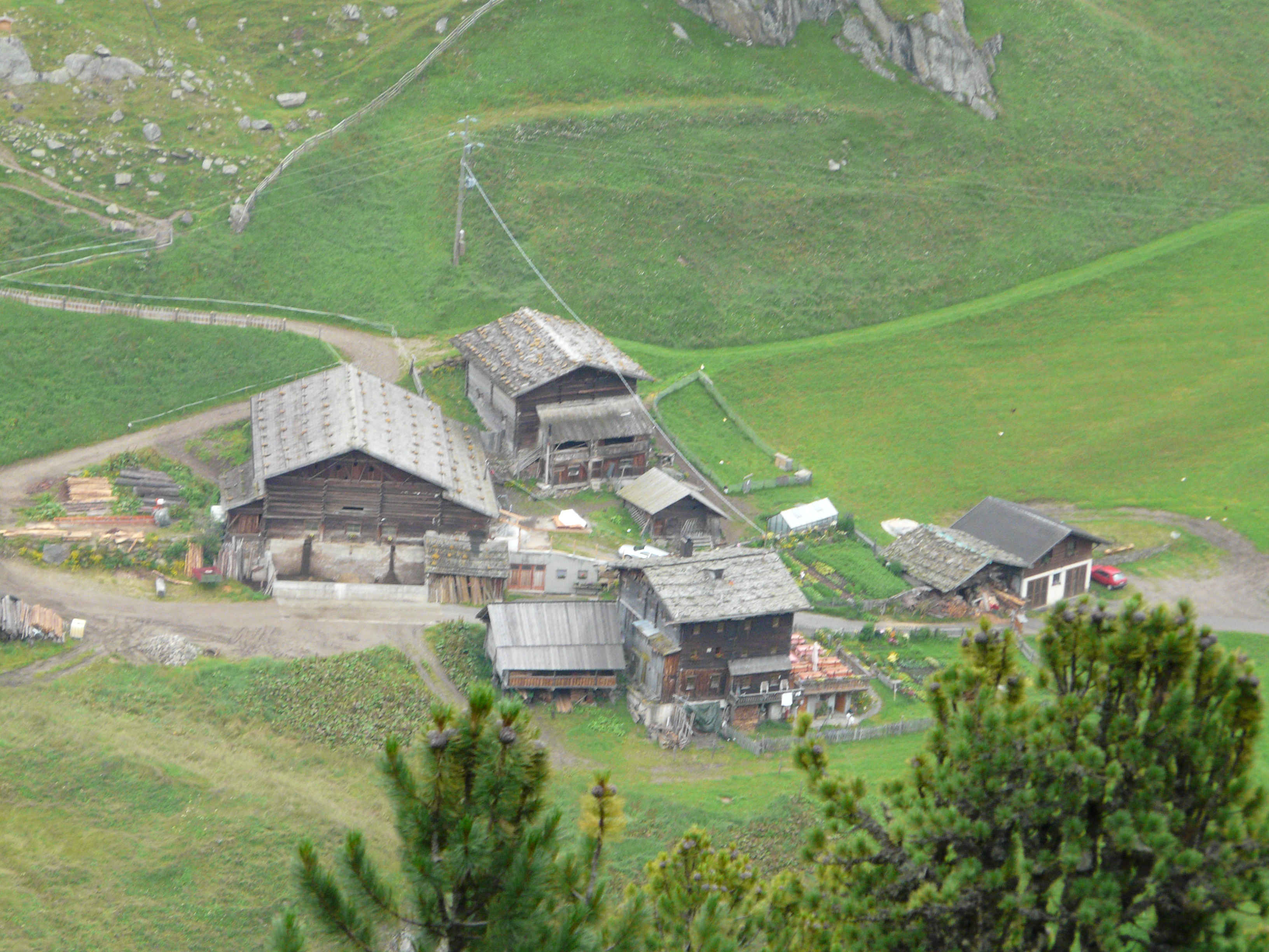 Marchegghof, Schnals